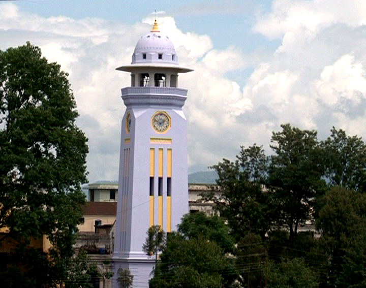 Clock tower in Kathmandu